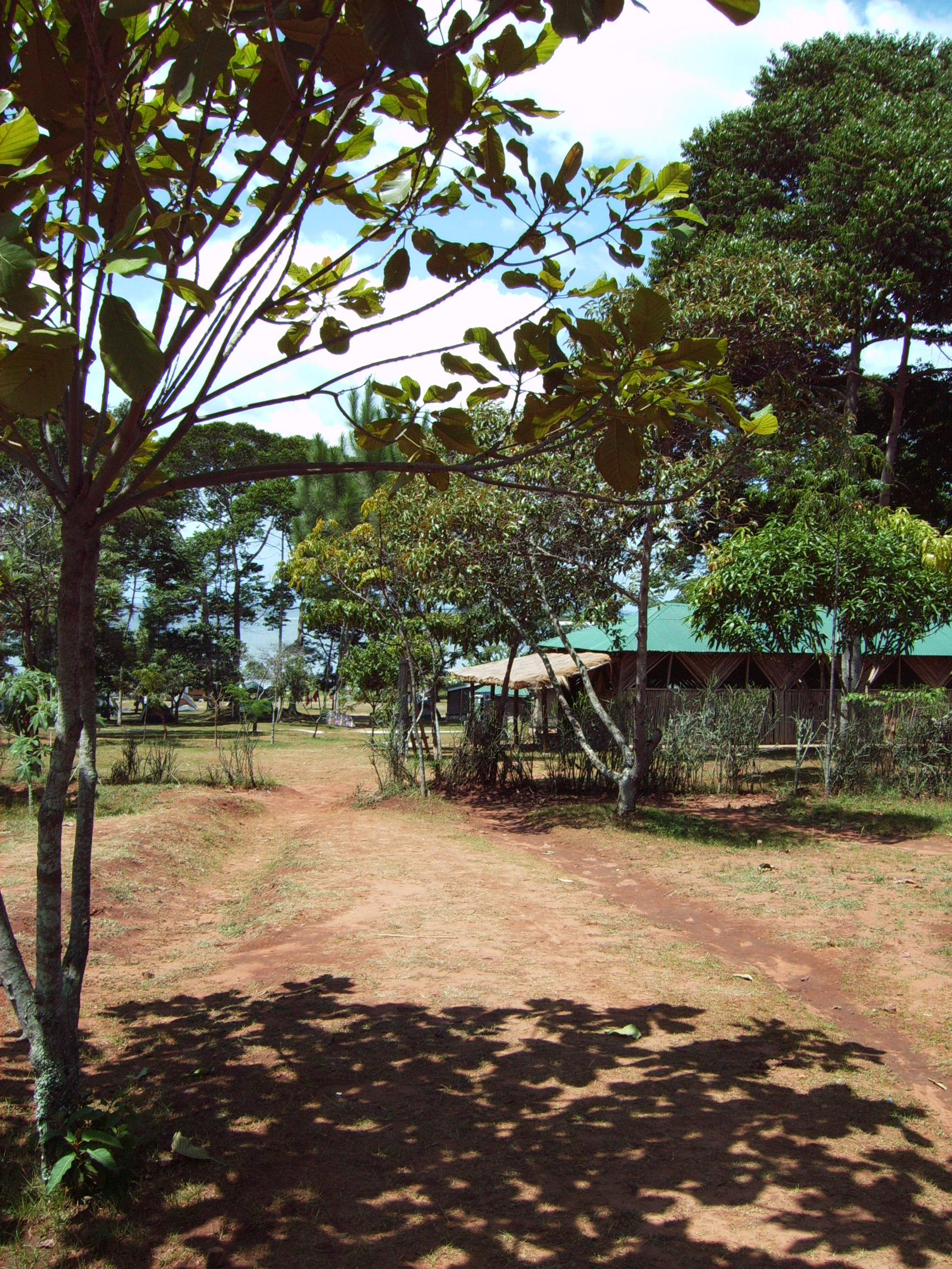 Kalangala Island, Uganda. Photo by Frederick "FN" Noronha.